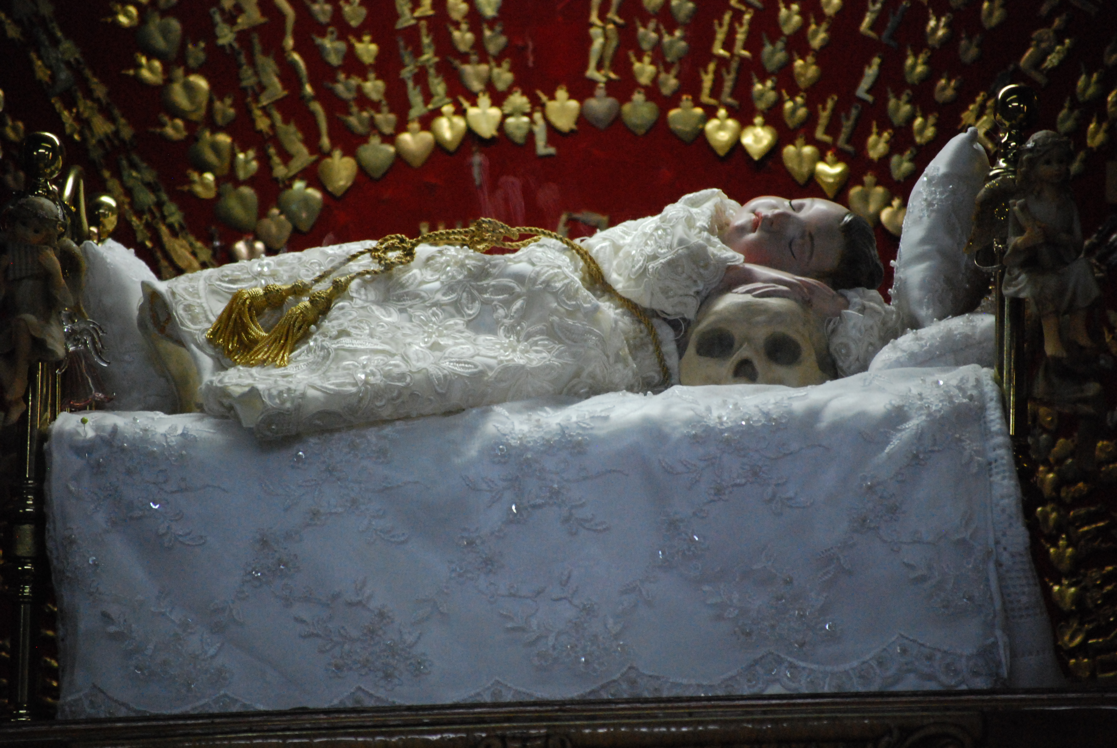 Close up of the Niño de las Suertes in Tacubaya, Mexico City